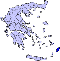 Map, Rhodes